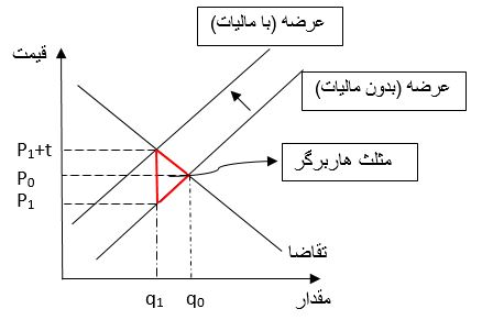 رفاه از دست رفته و مثلث هاربرگر(مثلث قرمز) متناظر با آن در اثر وضع مالیات بر فروش